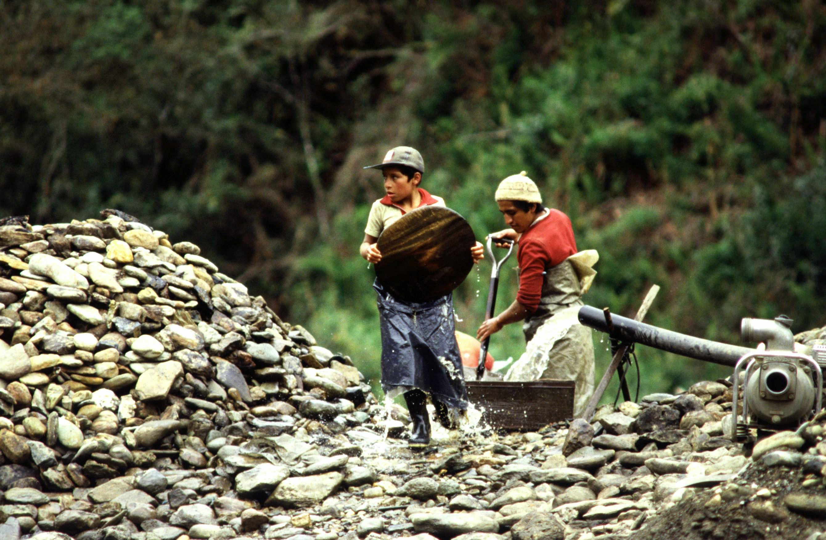 Child labor in South America